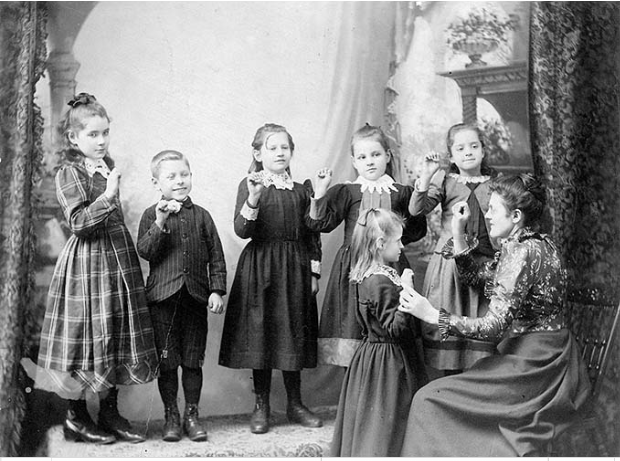 Halifax School For Deaf By Gauvin And Gentzel NSARM